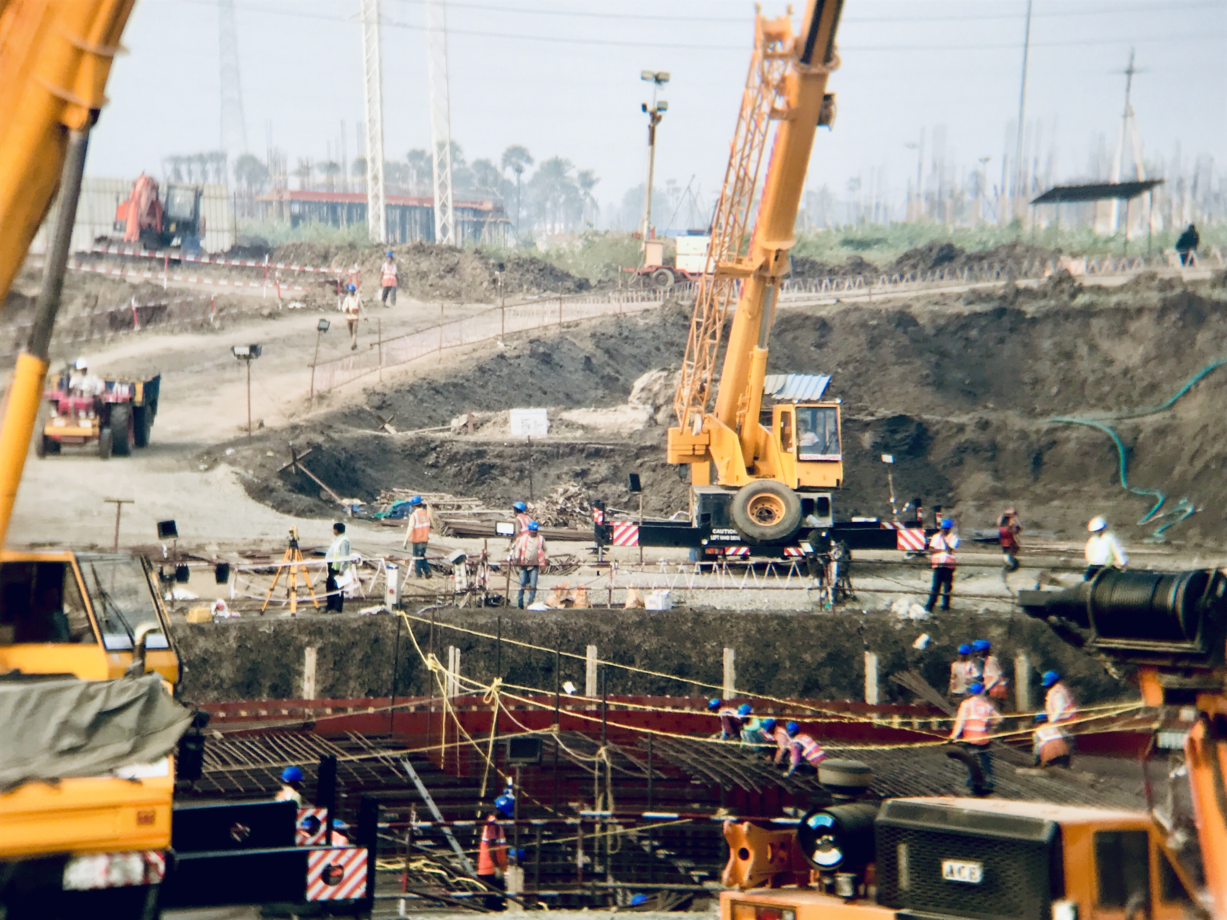 Amaravati is a planned city in Andhra Pradesh which was designed by Architect Norman Forster